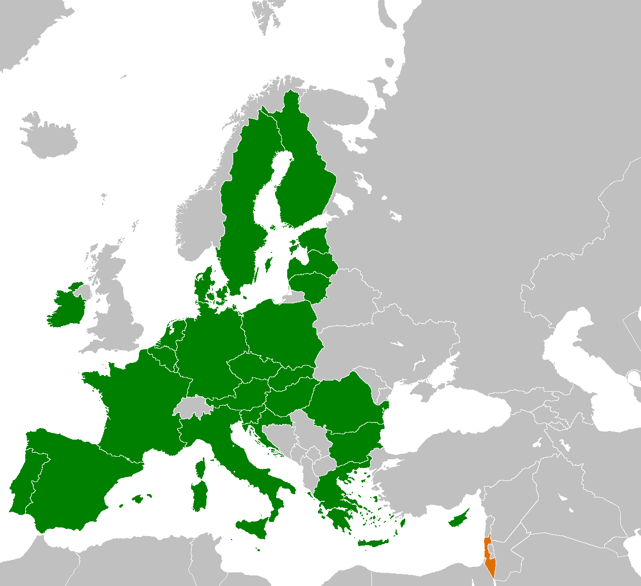 Locator map of Israel and the European Union. Based on :Image:BlankMap-World.png, for Israel and the European Union